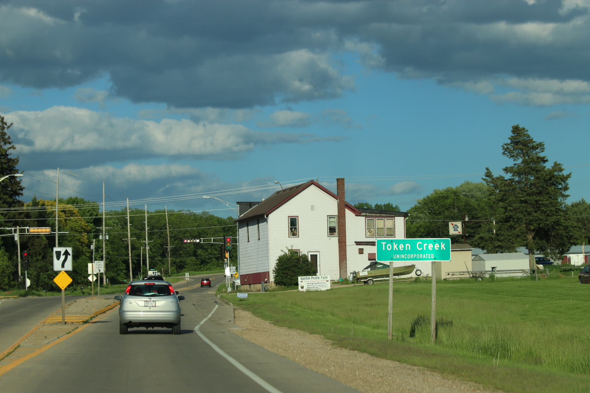 Looking east at the sign for Token Creek, Wisconsin on WI19.